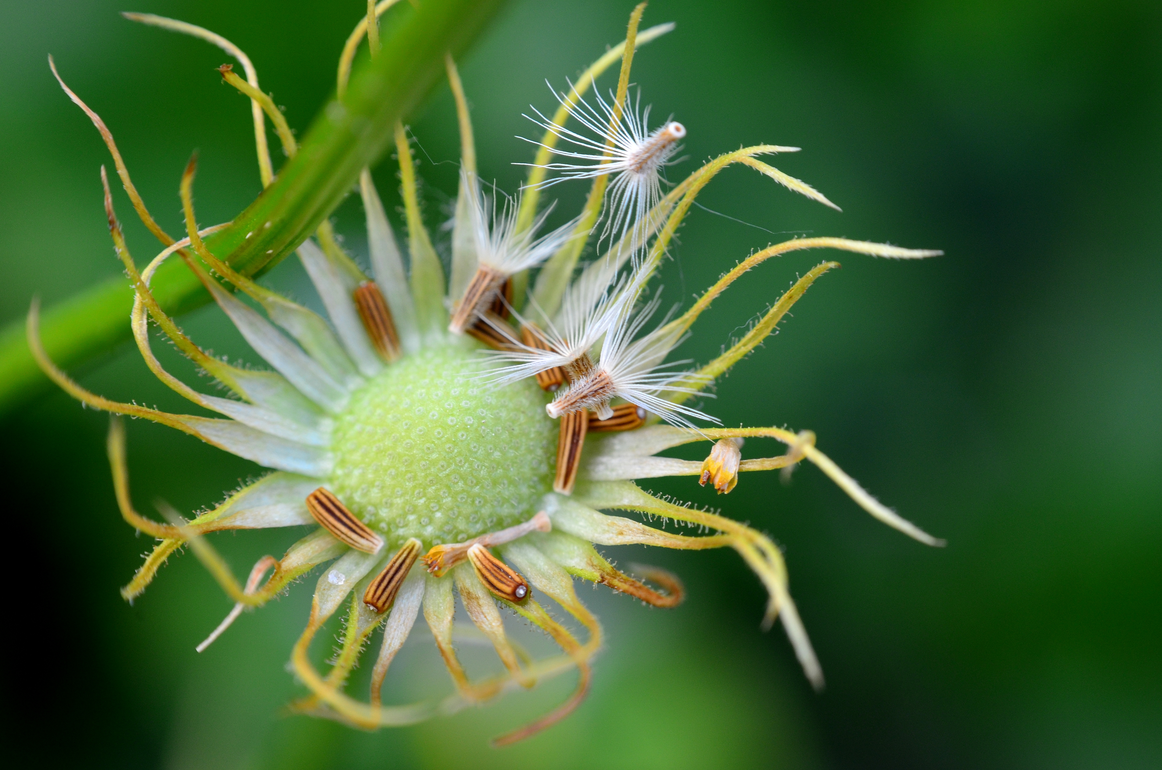 The seeds of doronicum orientale